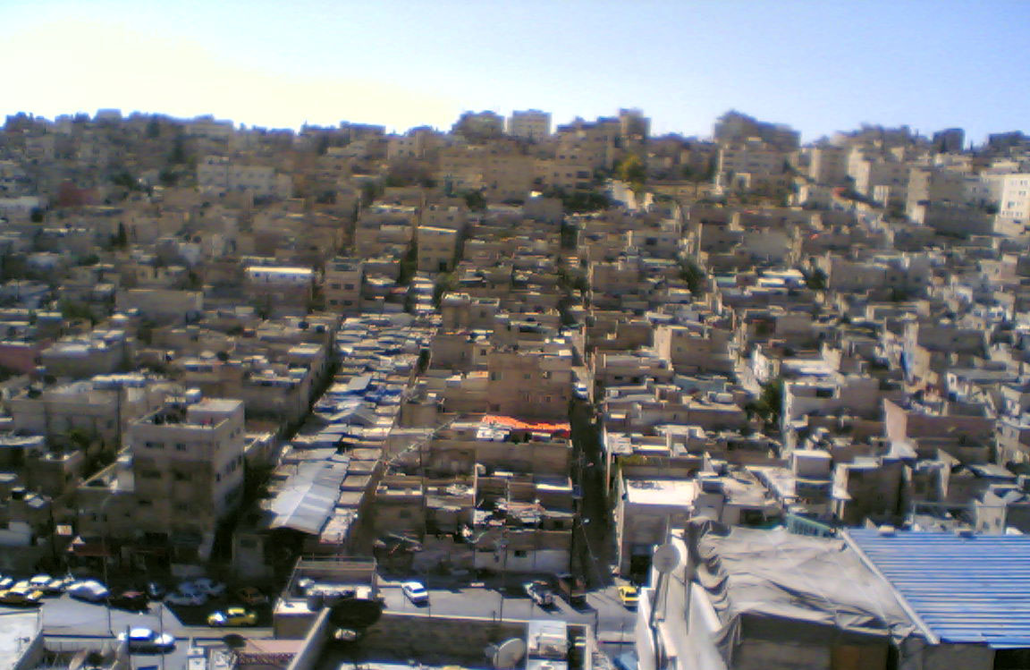 CAMP Al-Hussein NUMBER OF REGISTERED REFUGEES 29,520 - Palestinian REFUGEE CAMP in JORDAN